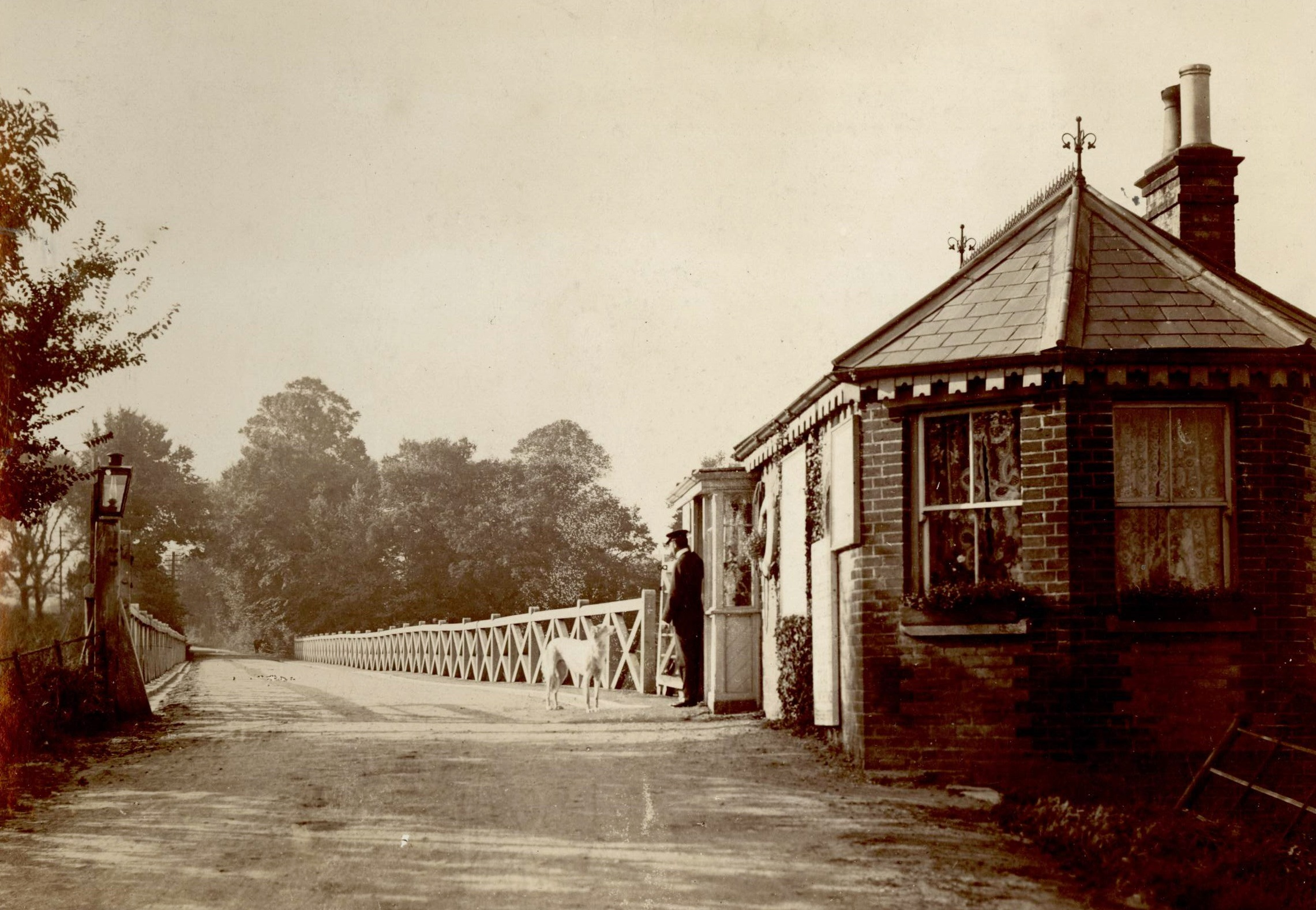 The original wooden toll bridge at Tuckton, built in 1882-3 and replaced by the present-day structure in 1905.